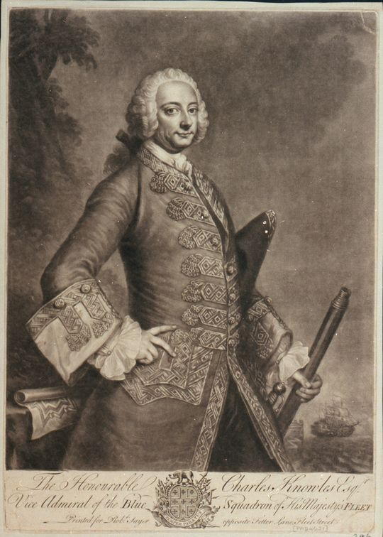 The Honourable Charles Knowles Esq Vice Admiral of the Blue Squadron of His Majesty's fleet